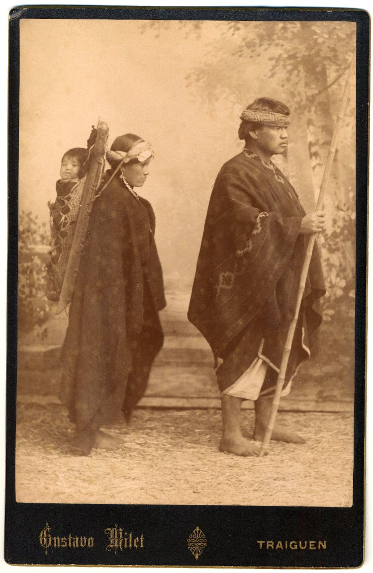 Photograph (black and white); cabinet card; a studio portrait of a Mapuche man, woman and baby seen standing in profile, posed in front of a painted background of an outdoor scene; the man is holding a stick in one hand and wears a chamal or trarilanko (headband) and manta (blanket/poncho); the woman wears a trarilonko (hair lace/headgear), chaway (earrings),and manta, and she carries the baby in a baby carrier made of wood and cord on her back; Traiguen, Chile.